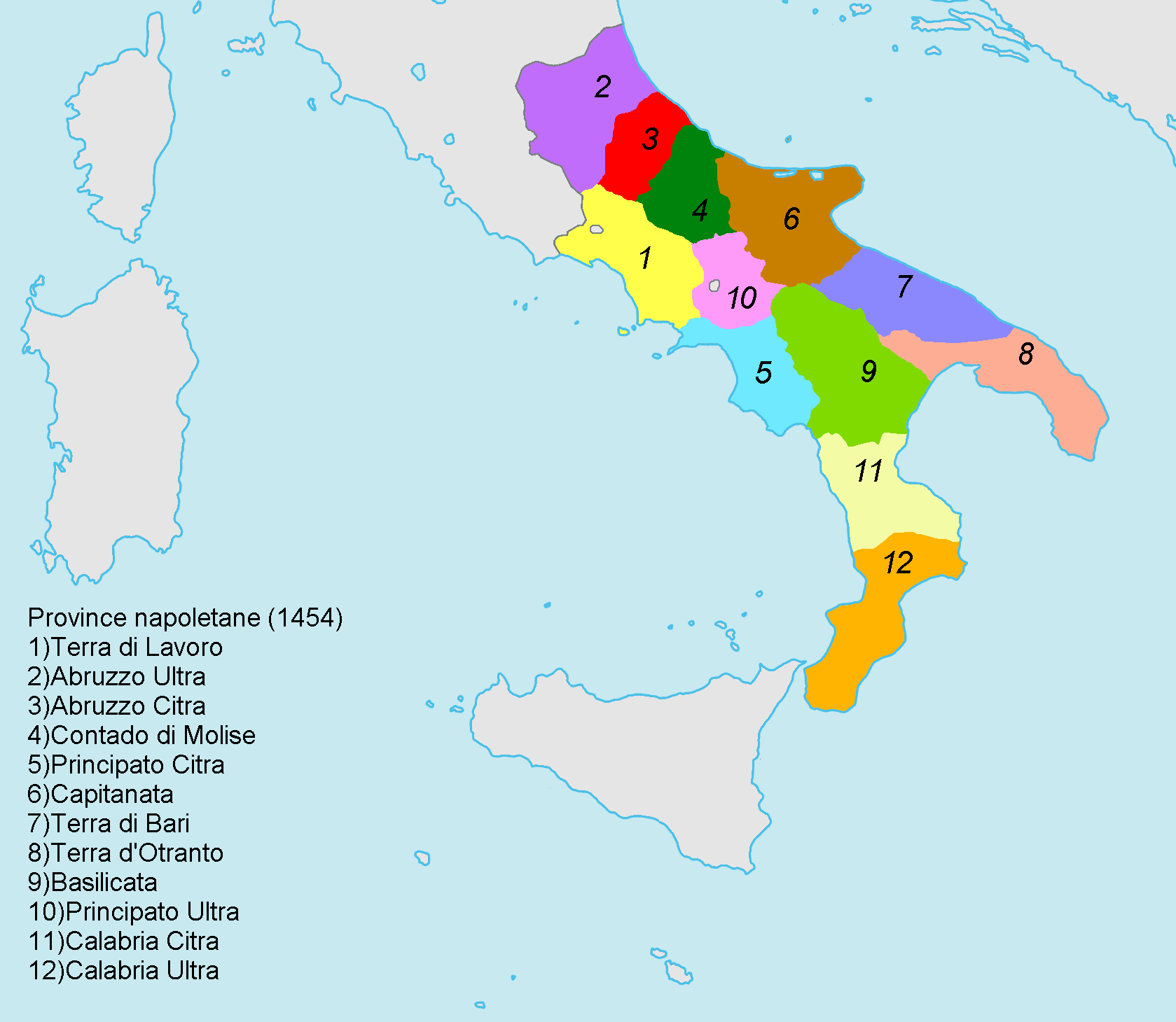 Map of the departments of the Kingdom of Naples in 1454 Napulitano: Mappa d e pruvincie Napulitane 'nd'o 1454